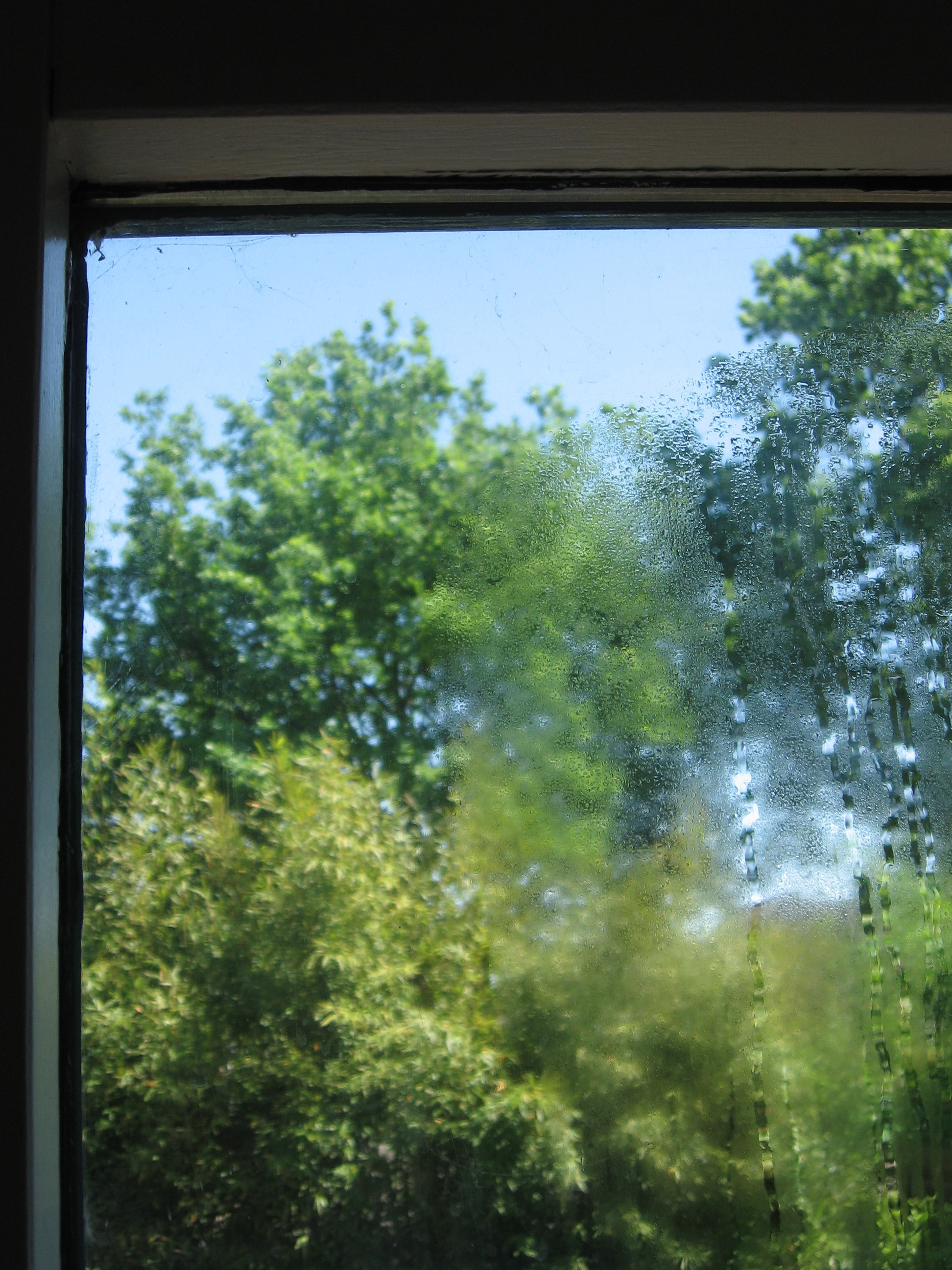 condensation in double glazing